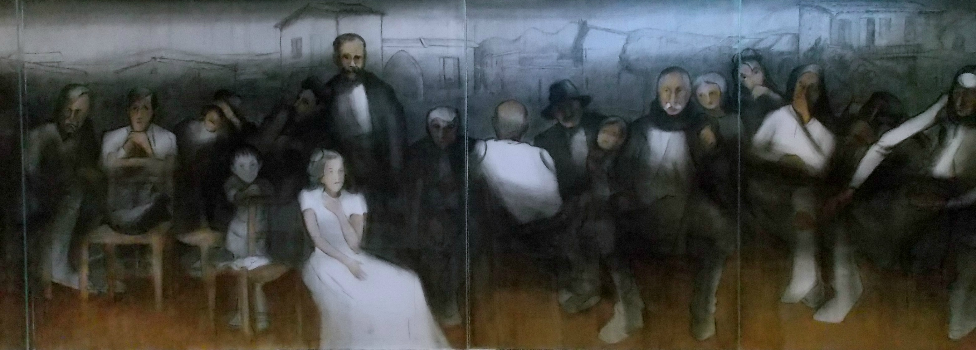 Leventis Gallery, Nicosia, Cyprus. Adamantios Diamantis - The World of Cyprus, part 5.